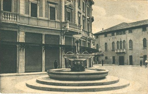 historical photo of the fountain of Piazza San Leonardo in Treviso